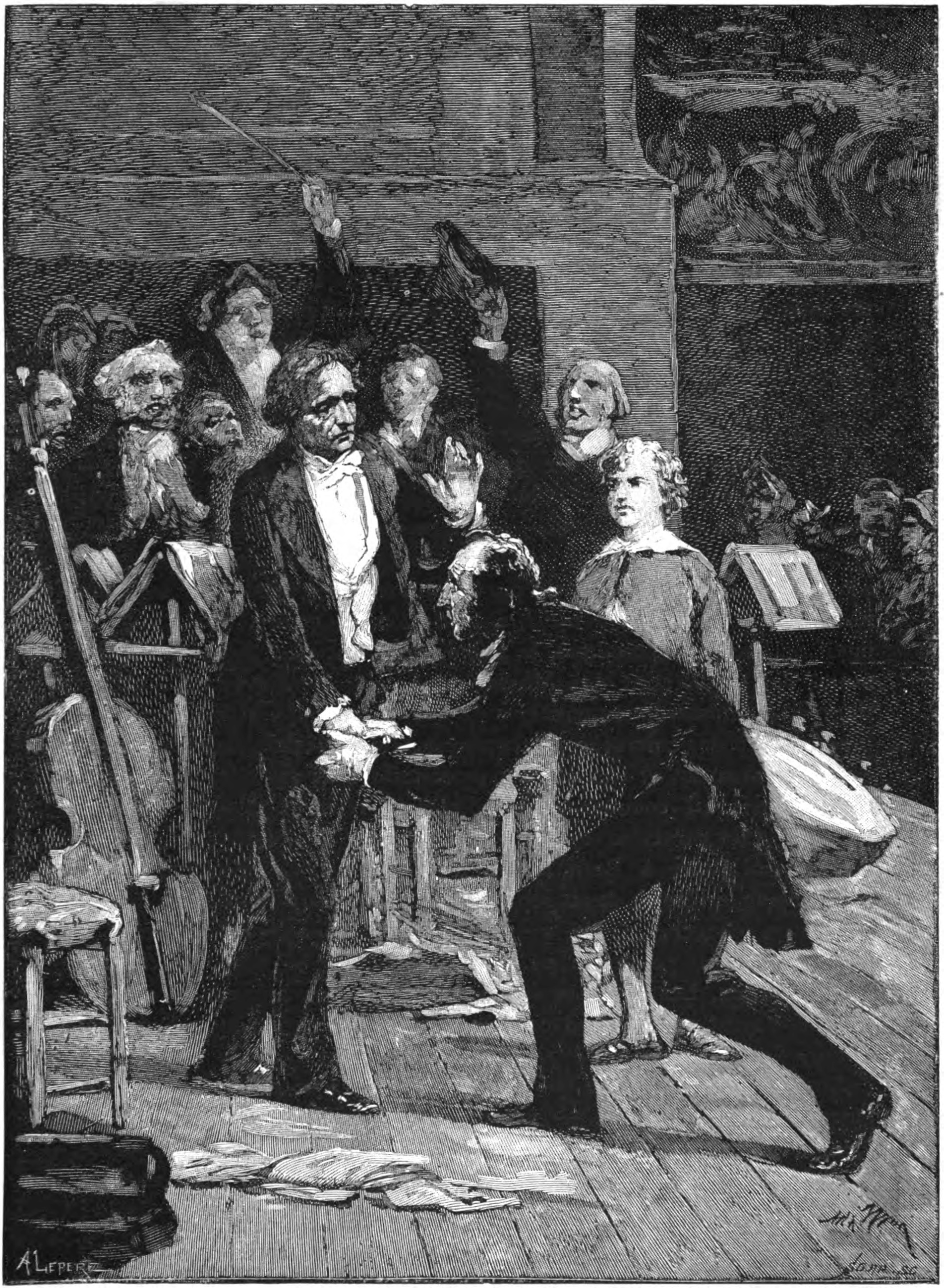 Caption: "The 16th of December 1838 at the Conservatory: Berlioz and Paganini. Sketch of the picture prepared by Adolphe Yvon, at the request of Édouard Alexandre (1884)." The incident occurred after a performance of Harold en Italie.